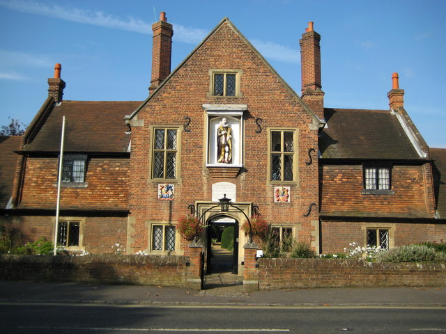 Bray: Jesus Hospital These almshouses were endowed through the munificence of William Goddard in his will in 1627. He allowed to provide for 40 persons of which 6 were to be aged fishmongers. The four sides, of which this is the front one, surround an internal quadrangle. This is the main entrance with the statue of William Goddard in the gable end. Over the front entrance is the sign advising that "Vagrants Hawkers & Dogs are not admitted". It is to be hoped that the reading standards of dogs in the Bray area are at a higher level than the national average. See 977028 for a view looking along the road outside.